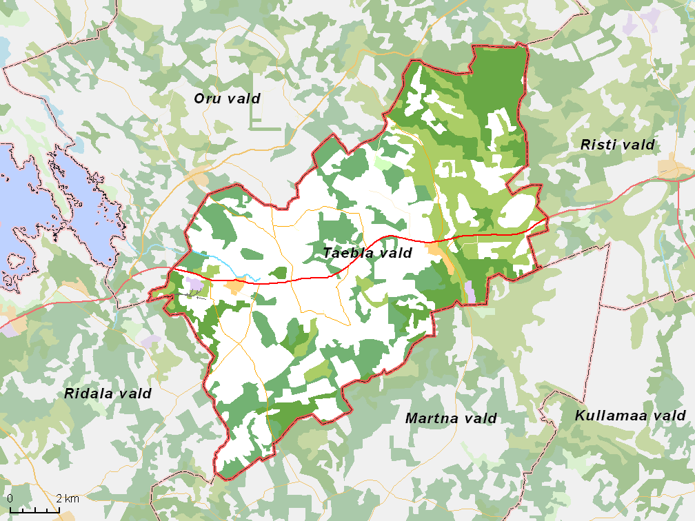 Map of municipality in Estonia